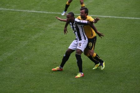 Arquin holds off AEK Athens defender